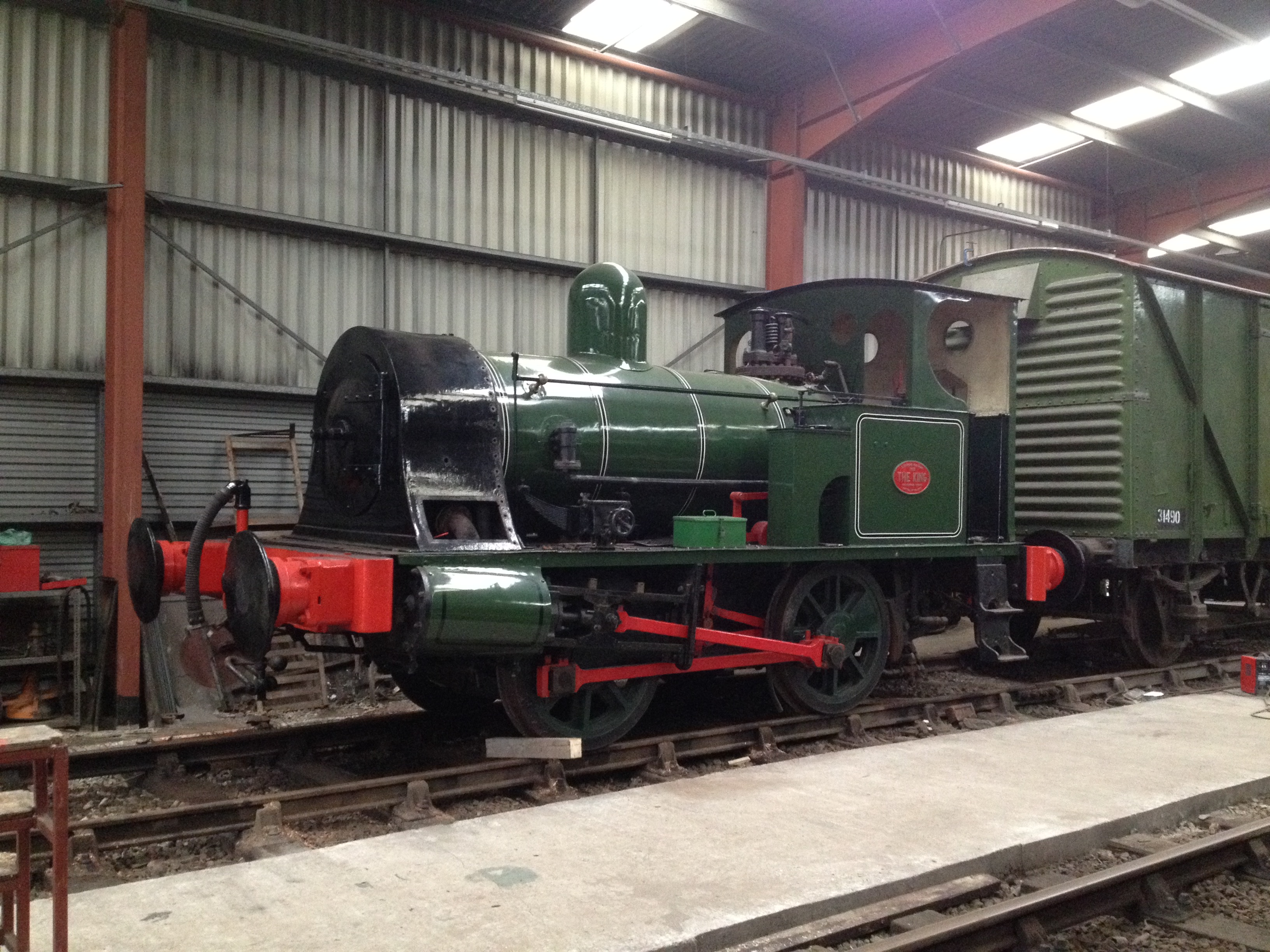 Sister engine to no 53 "Windle" no 48 "The King" is one of three survivors of her class.